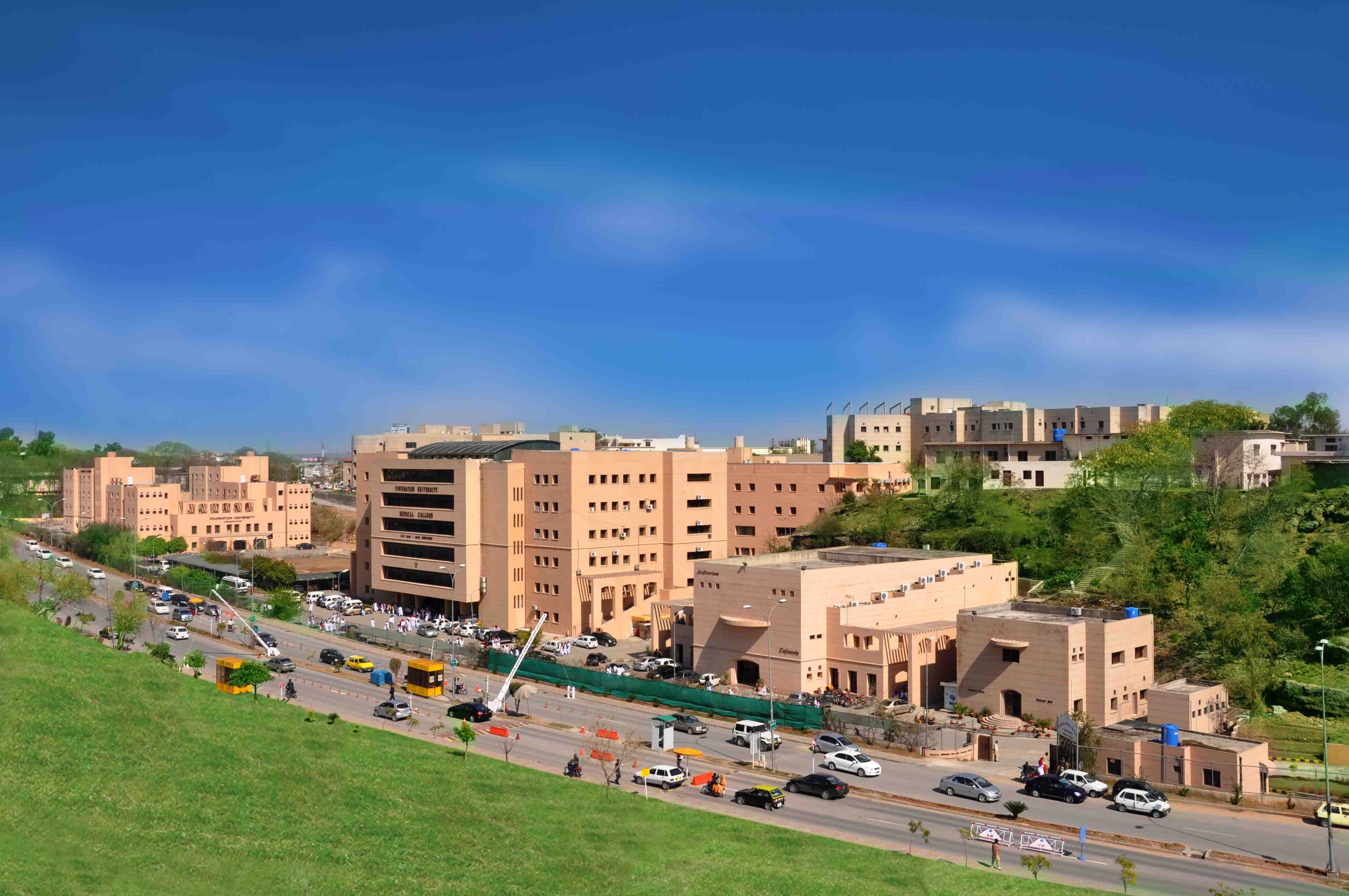 Foundation University Islamabad